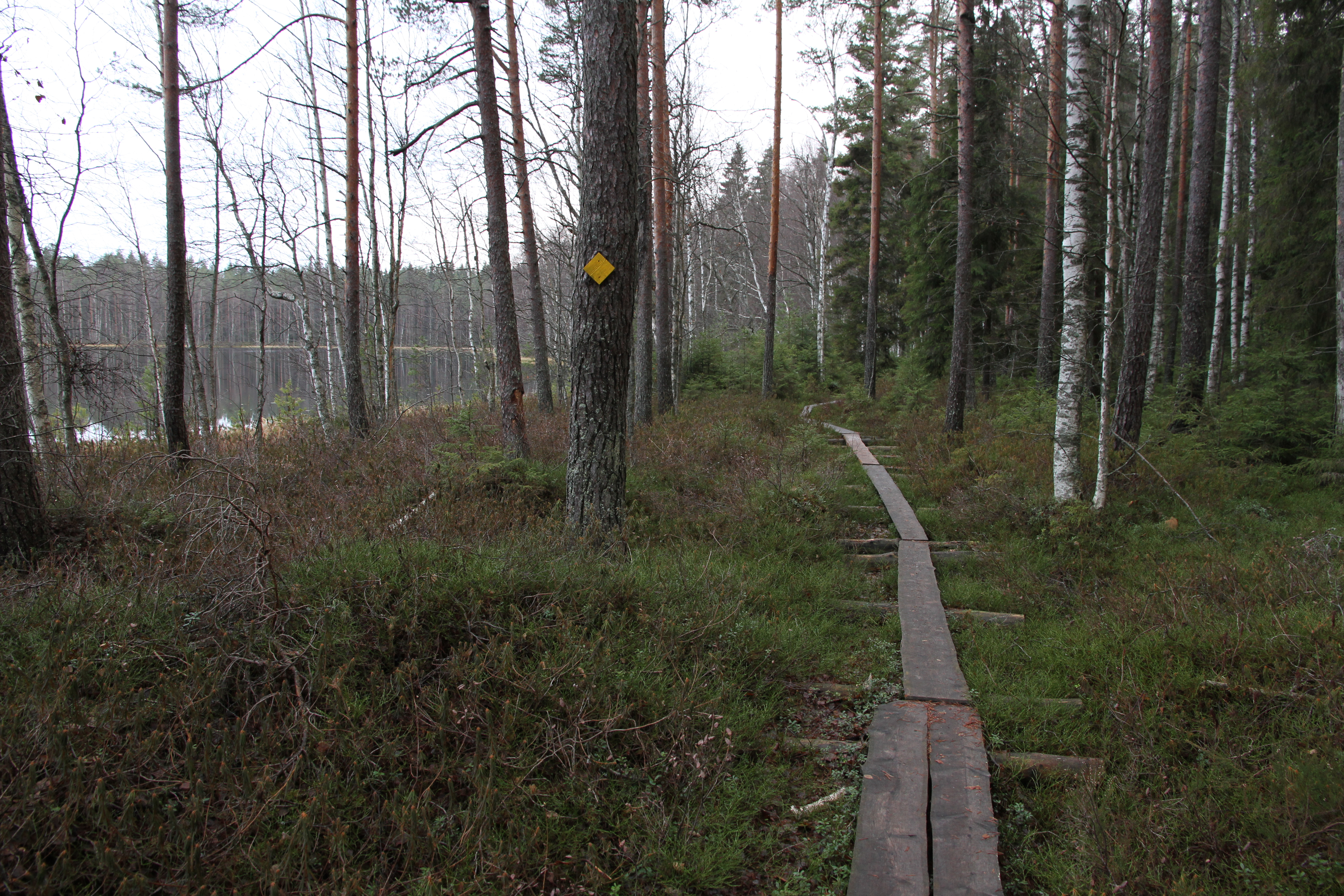 Liesjärvi National Park, Finland.